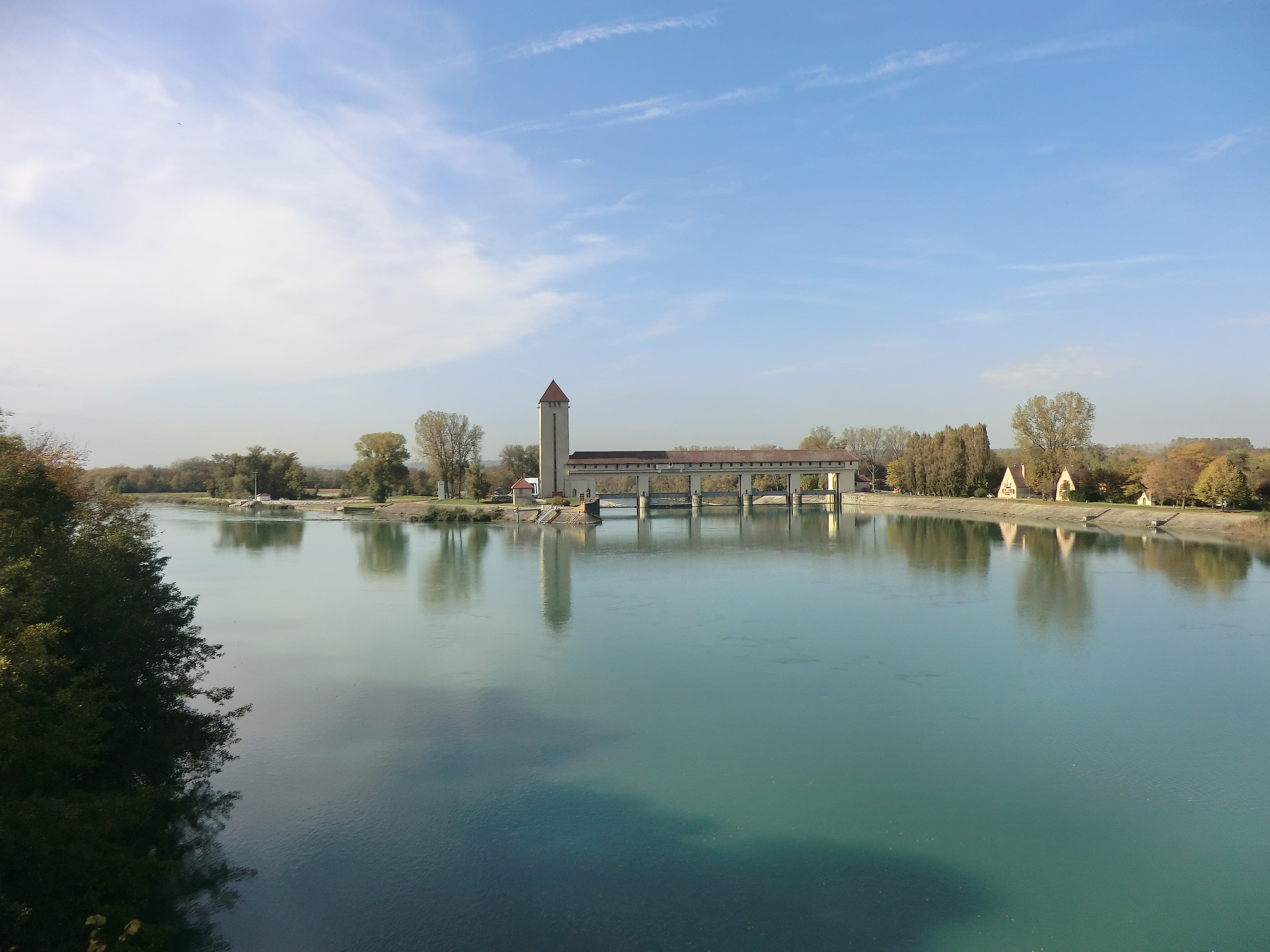 Barrage de Jons.